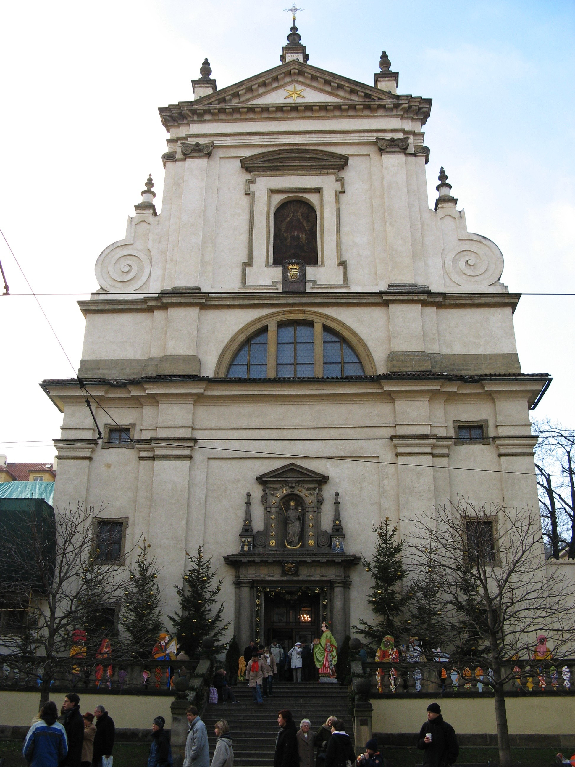 Church of Our Lady Victorious in Karmelitská street, Lesser Town, Prague